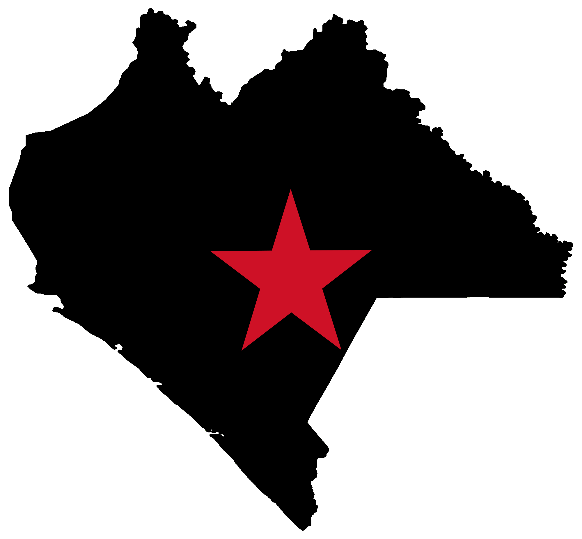 Flag-map of Chiapas made with a map of Chiapas and the Zapatista flag.